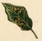 Stainton’s Natural History of the Tineina (1855–1873): Phyllonorycter messaniella mined leaf of evergreen oak